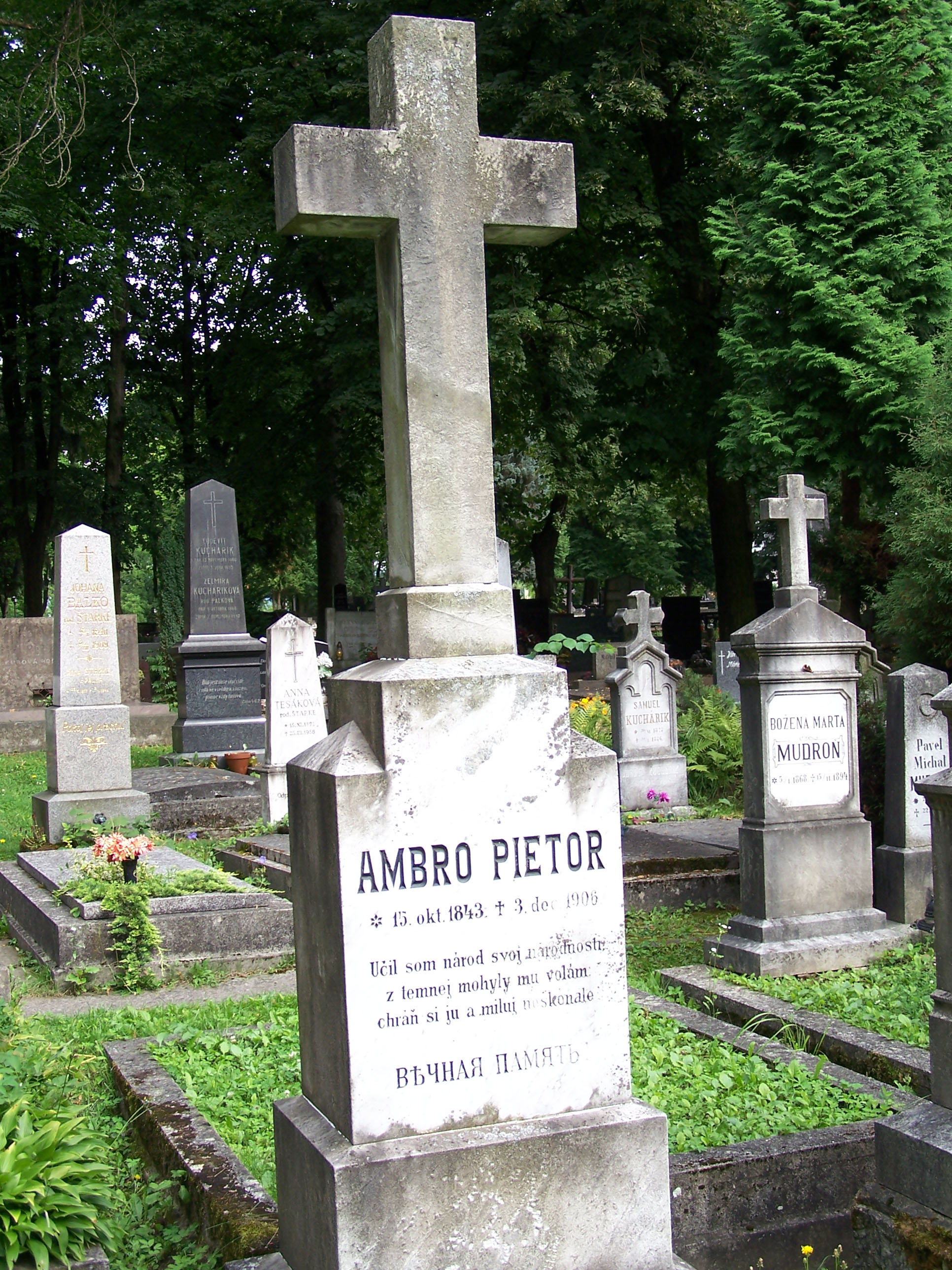 Grave of Ambro Pietor at the National Cemetery in Martin, Slovakia